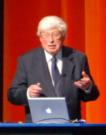 Gerhard Ertl giving a talk at the Urania Berlin